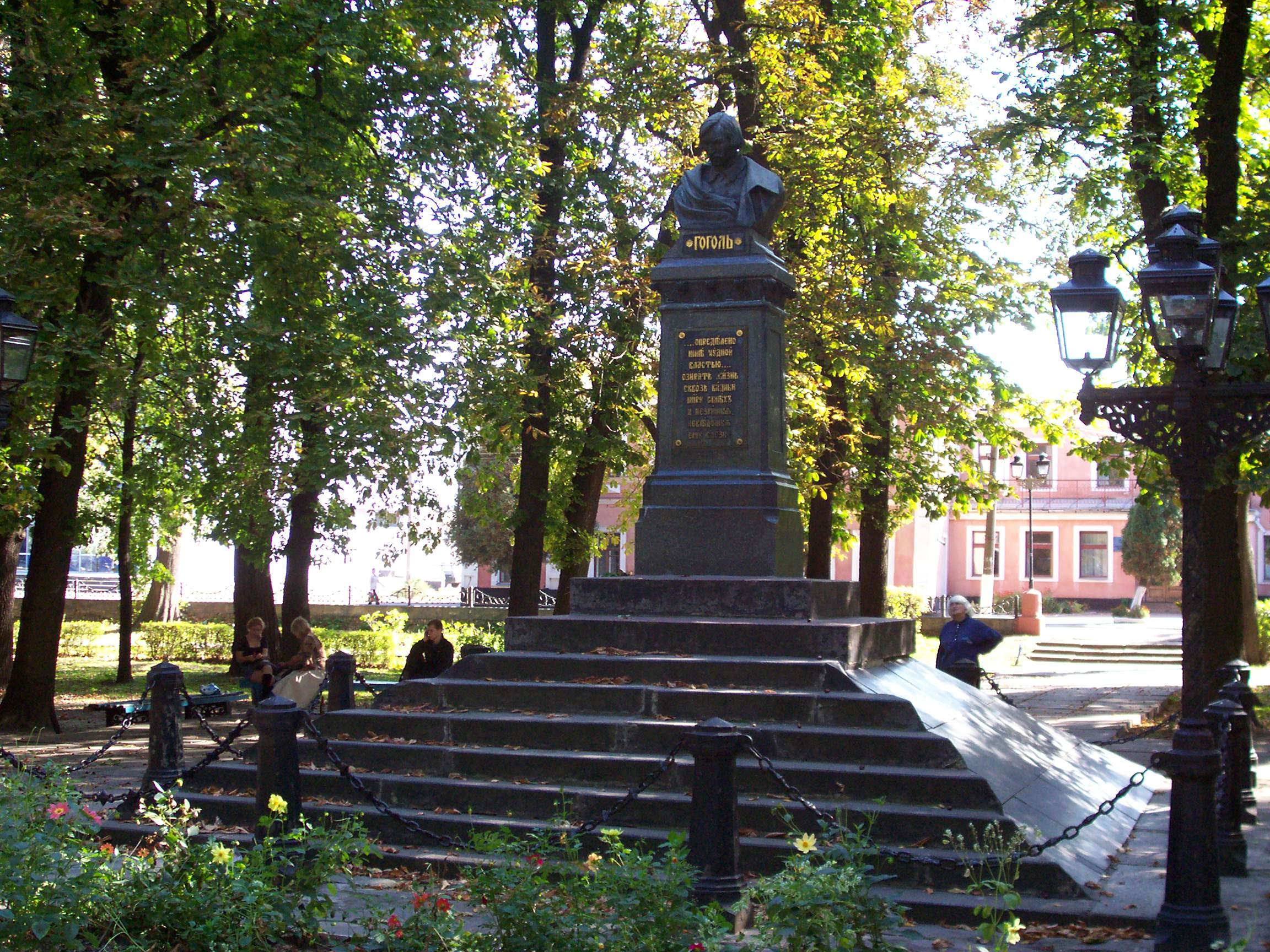 Gogol's monument in Nizhyn